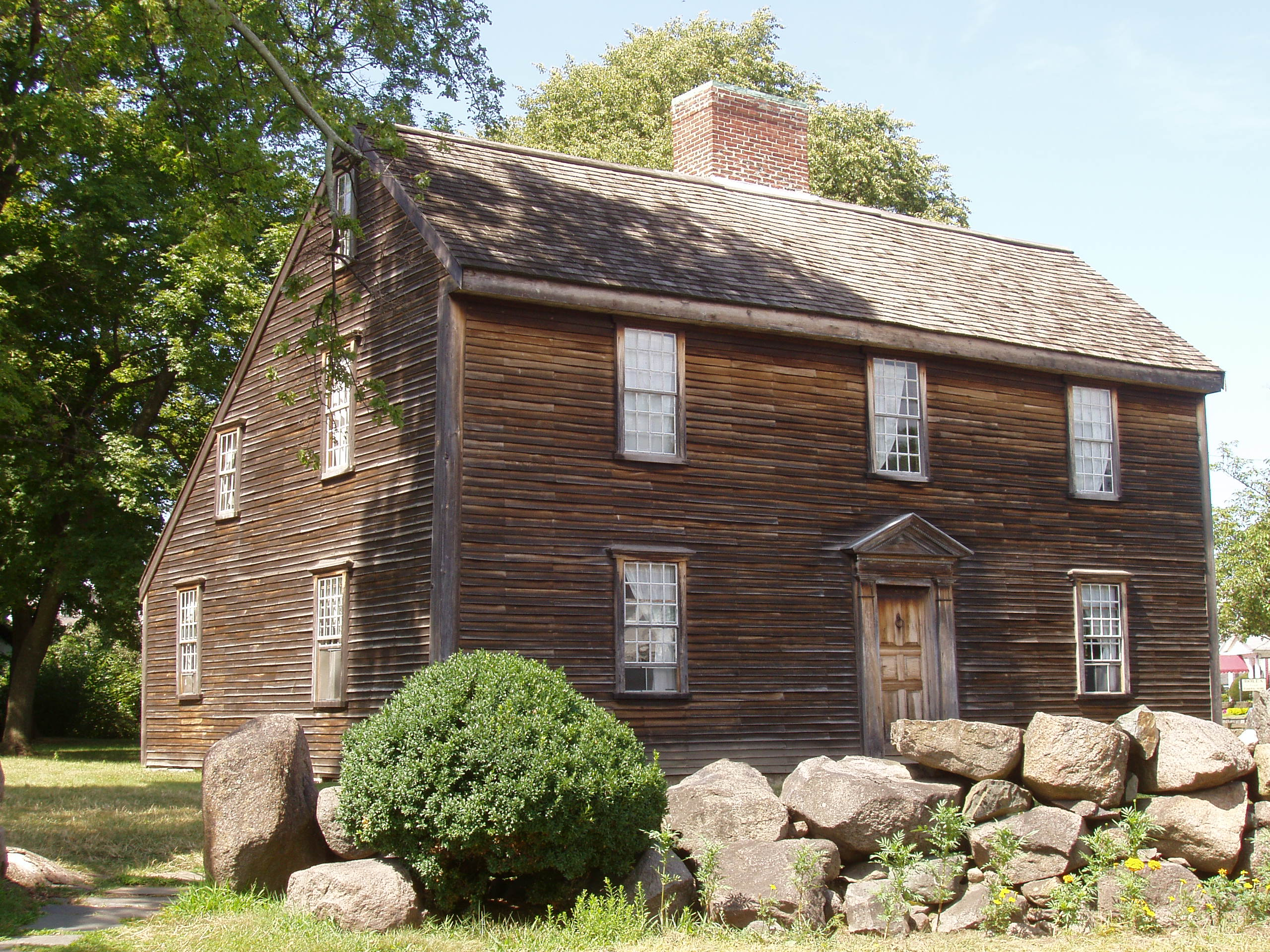 Birthplace of U. S. President John Adams, in Quincy, Massachusetts. This house is now part of the Adams National Historical Park operated by the National Park Service, and is open to the public. Photograph taken by me, August 2005.